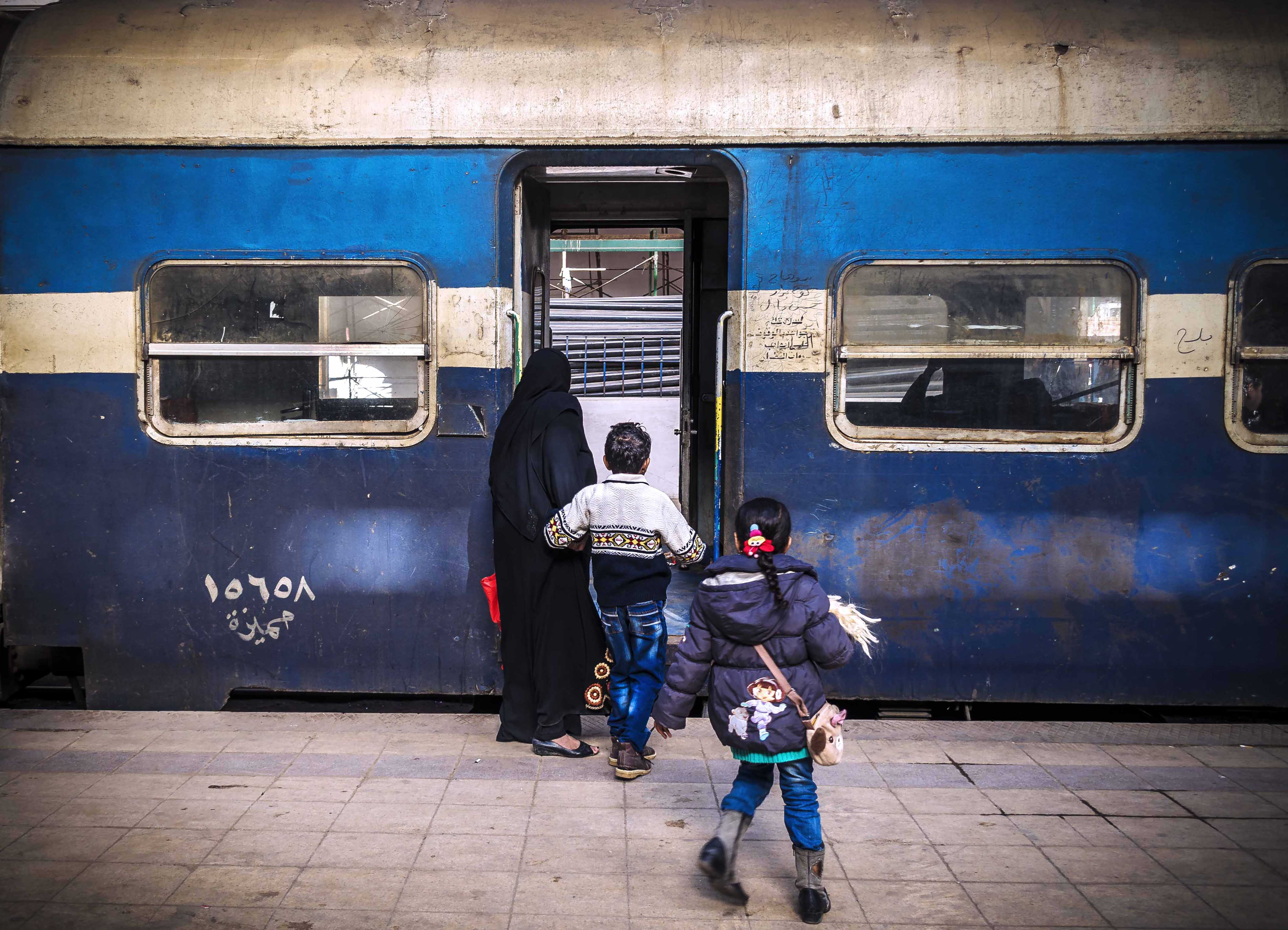 This is an image with the theme "Africa on the Move or Transport" from: Egypt